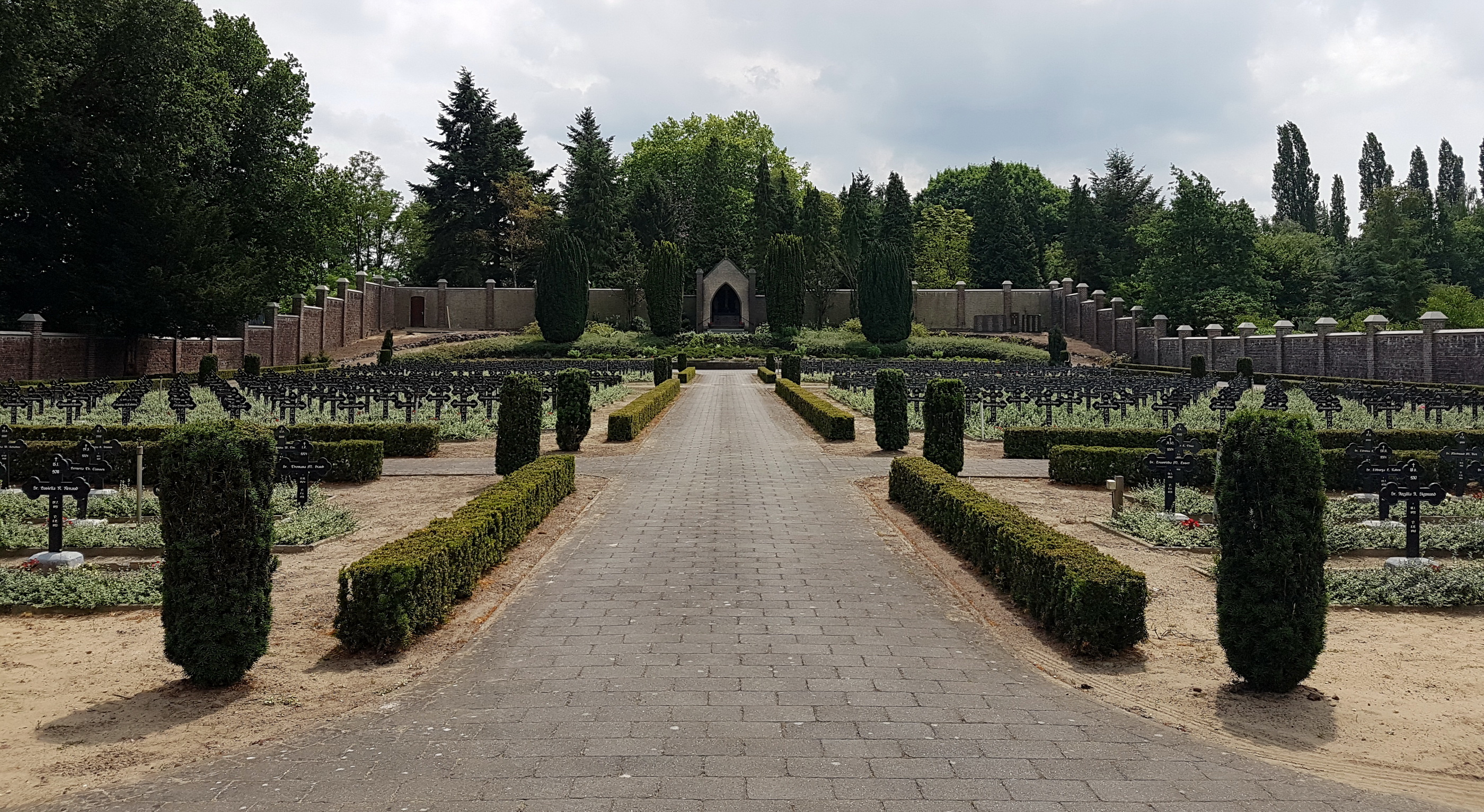 View of the cemetery of the "blue sisters", part of the gardens of the Monastery of the Holy Hart in Steyl (Venlo), the Netherlands. This is the mother house of the RC Congregation of the Servants of the Holy Spirit (Servae Spiritus Sancti; SSpS) or "blue sisters"